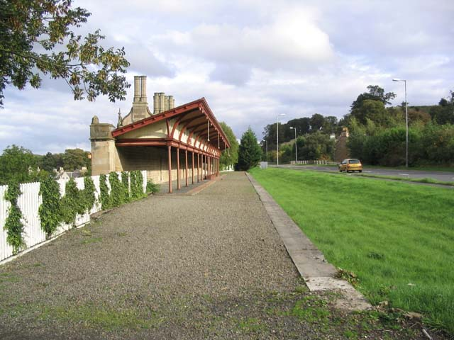 The former Melrose Railway Station Melrose Railway Station was constructed in 1847-9 as part of the Waverley route from Edinburgh to Carlisle. The line was closed in 1969 and the main building presenting a Jacobean facade to the town centre was converted in 1986 into a restaurant and offices. The station canopy on the up, or north, side of the former line has survived, but the buildings and signal box that stood on the down, or south, side of the line were demolished to make way for the A6091 Melrose bypass road. (Source: Borders and Berwick, An Architectural Guide by Charles Alexander Strang and Borders Railways Rambles by Alasdair Wham)